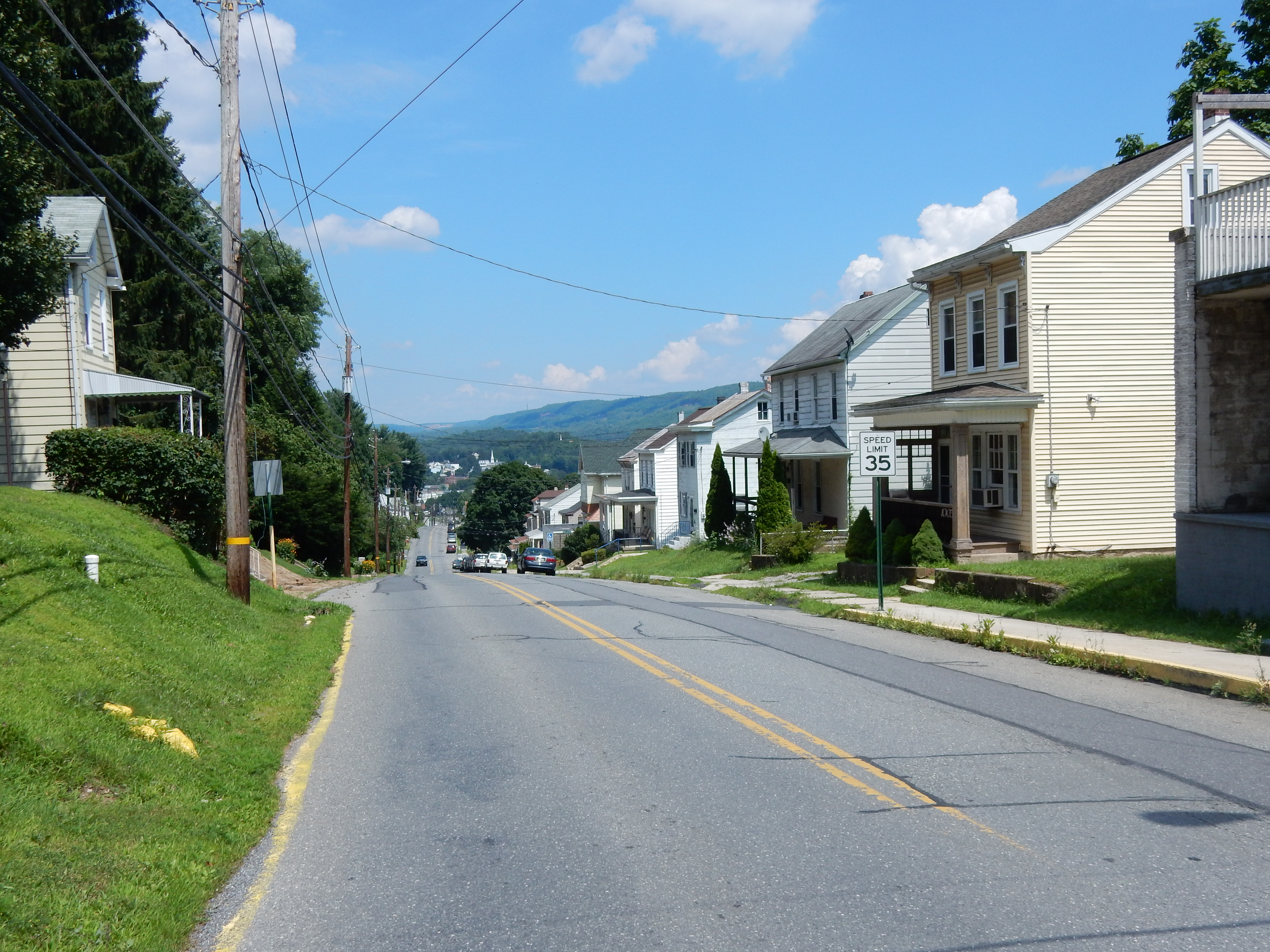 Mechanicsville, Schuylkill County, Pennsylvania. Pottsville St., looking east.